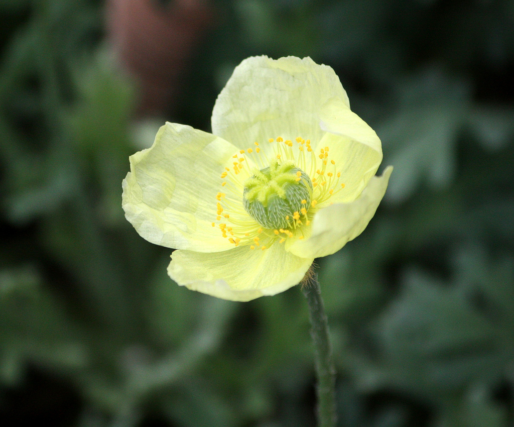 Papaver lapponicum subsp. occidentale